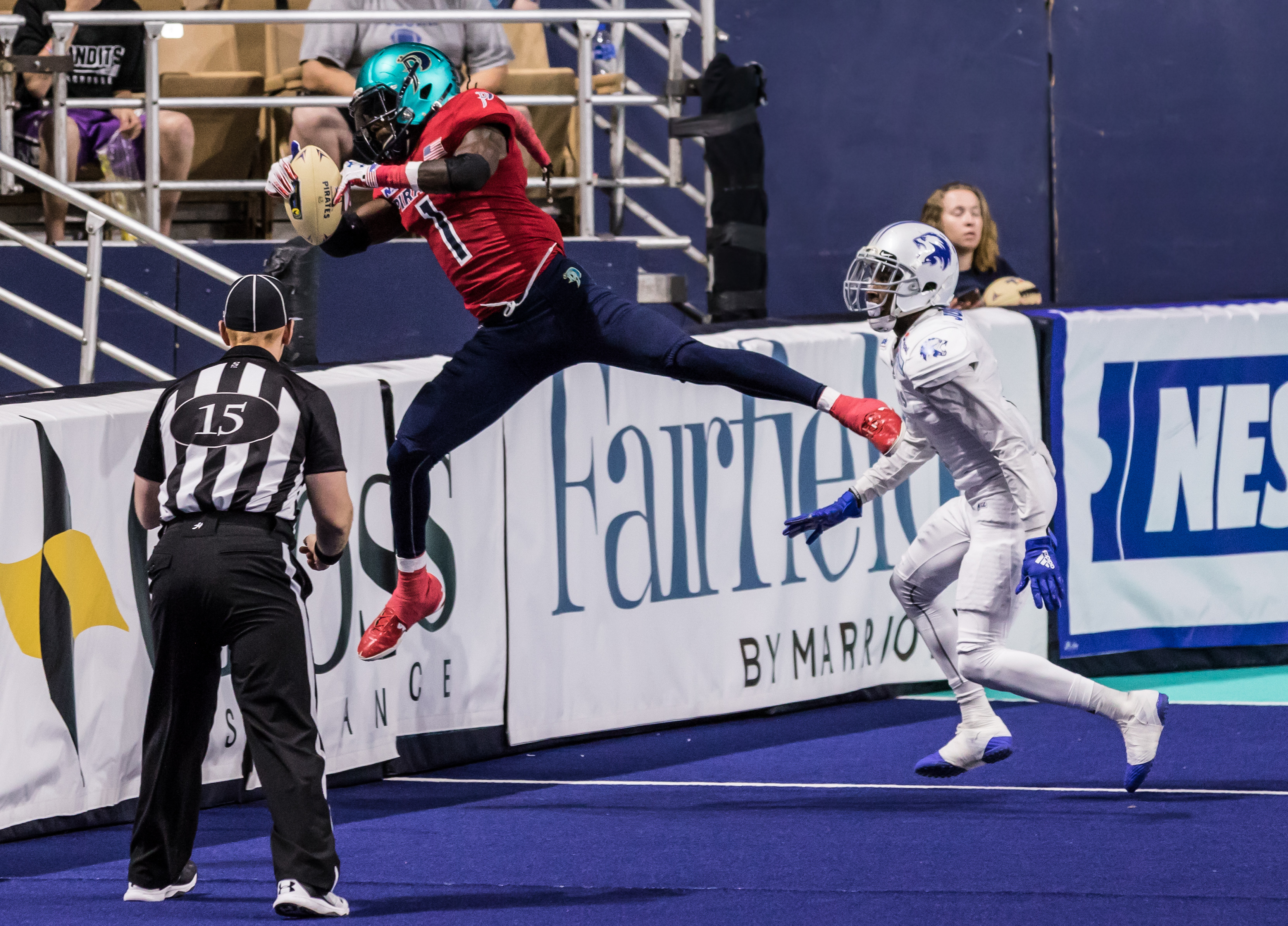 Mardy Gilyard playing for the Massachusetts Pirates on June 22,2019